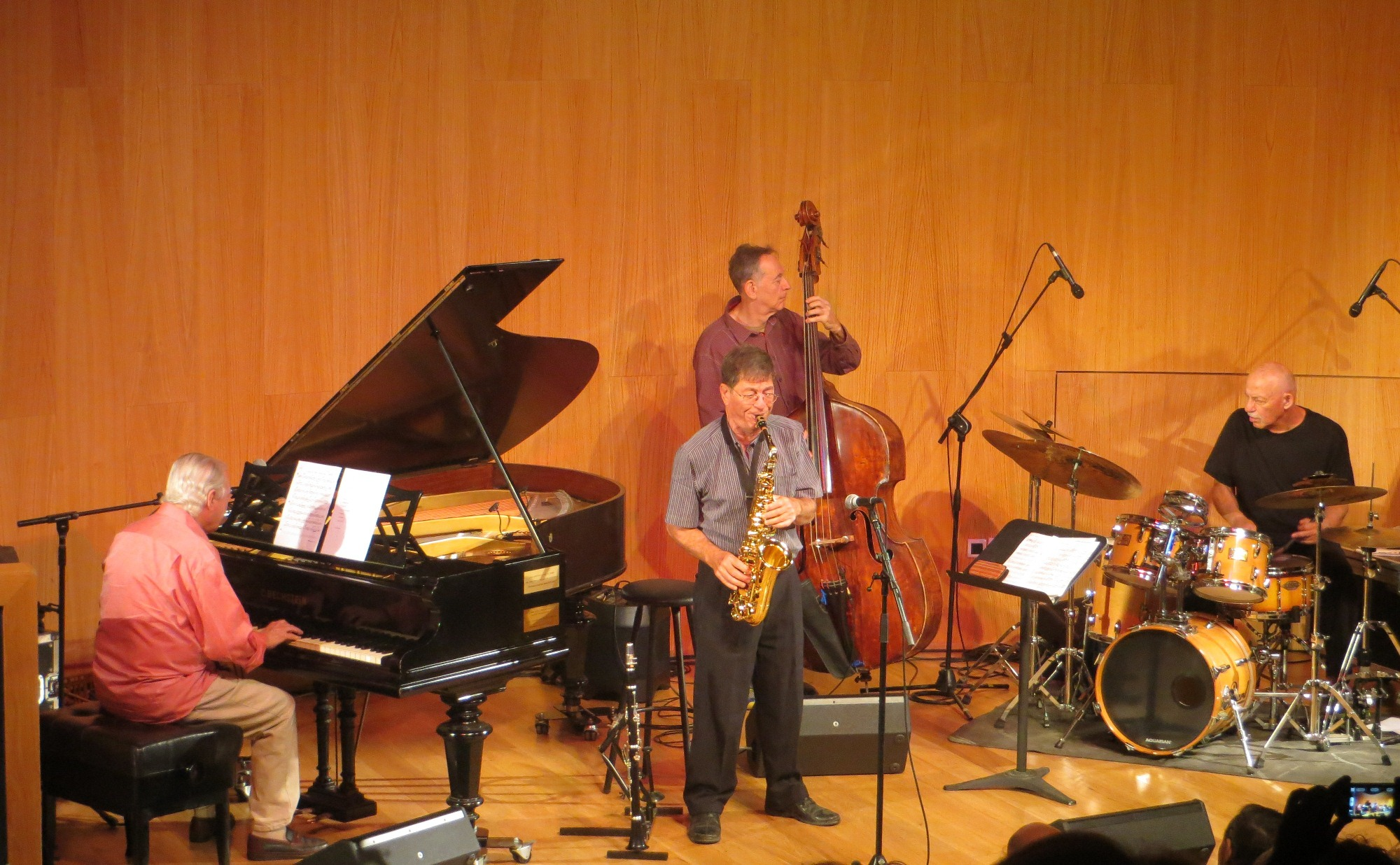 Israeli jazz musicians, Entertainment